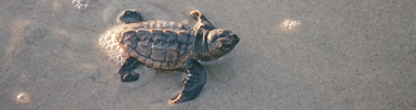 A baby Loggerhead Sea Turtle